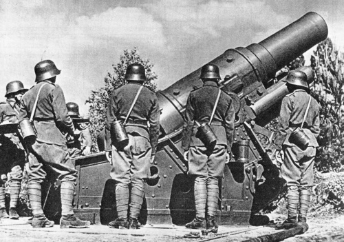 30.5 cm Škoda mortar M1916 of the Czechoslovakian Army